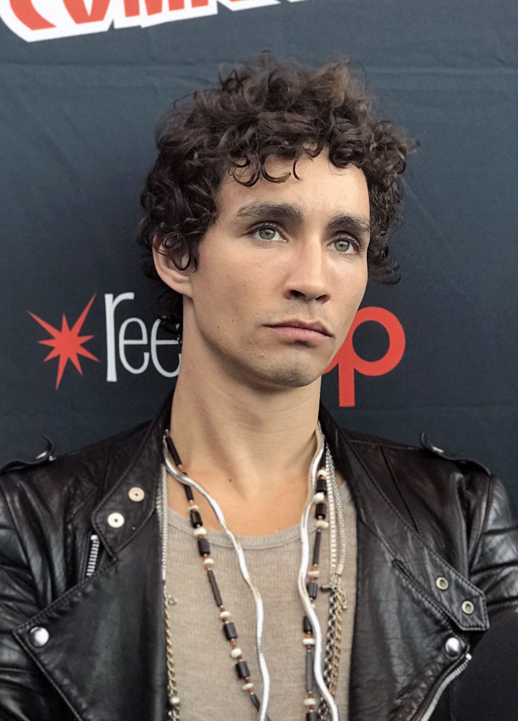 Irish actor Robert Sheehan at the Electric Entertainment Press Room, where the TV series The Librarians and the film Bad Samaritan were being promoted, on Thursday, October 5, 2017 at the Jacob K. Javits Convention Center in Manhattan, Day 1 of the 2017 New York Comic Con. This photo was created by Luigi Novi. It is not in the public domain, and use of this file outside of the licensing terms is a copyright violation.